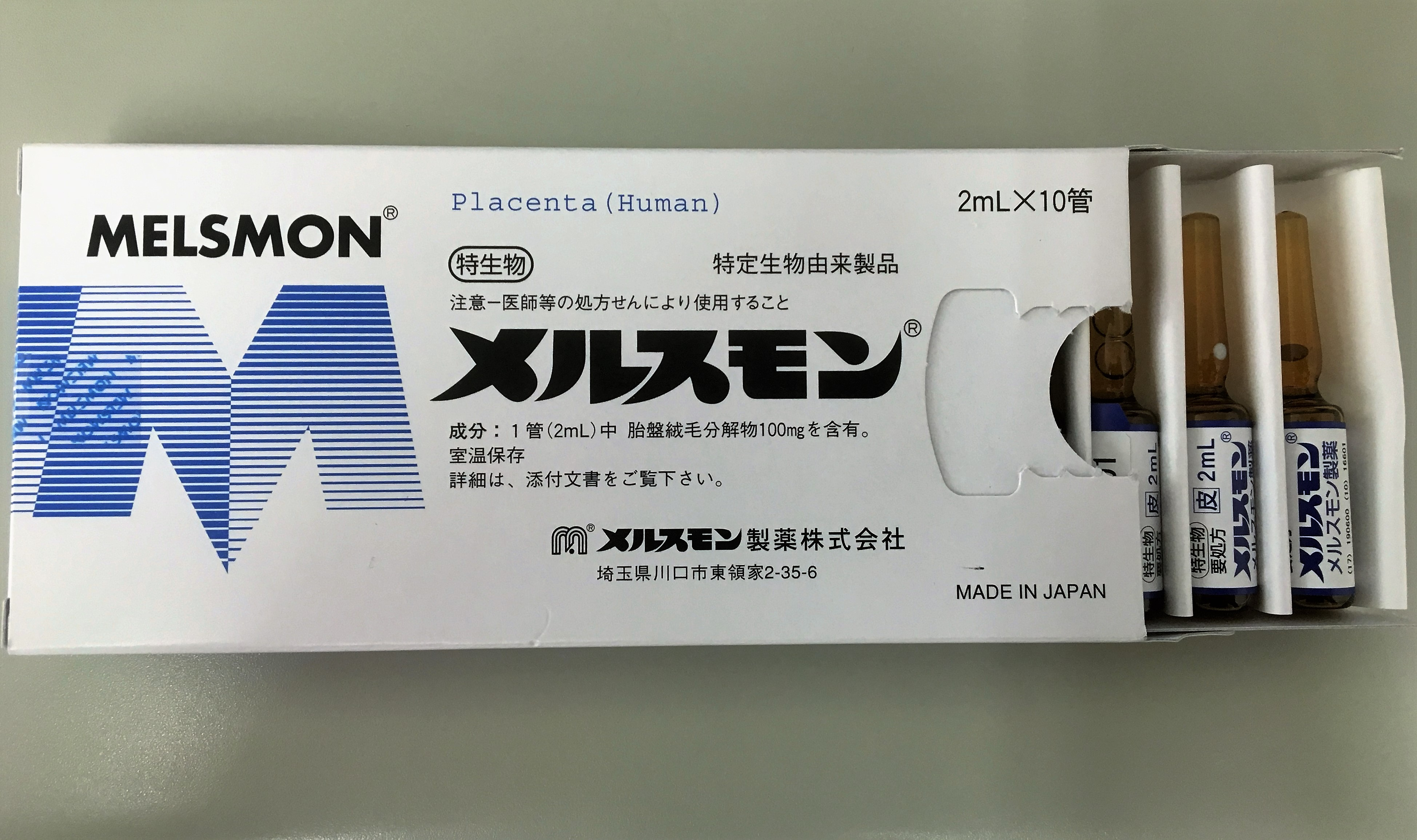 MELSMON_(Pharmaceuticals made from Placenta) JAPAN 2016